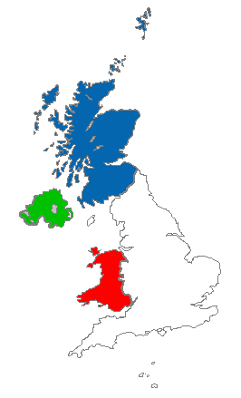 A map of the United Kingdom and Crown Dependencies, depicting the four separate Football Associations' jurisdictions. They correspond to the Home Nations, except the Crown Dependencies, which are affiliated to the English FA.